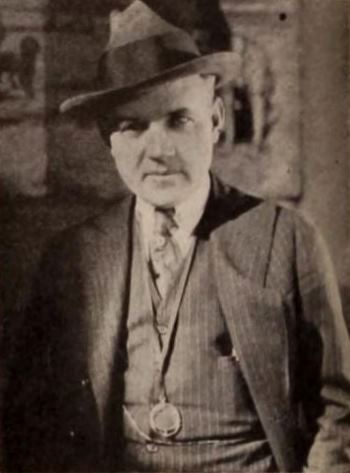 American film director Dallas M. Fitzgerald, on page 56 of the February 28, 1920 Exhibitors Herald.